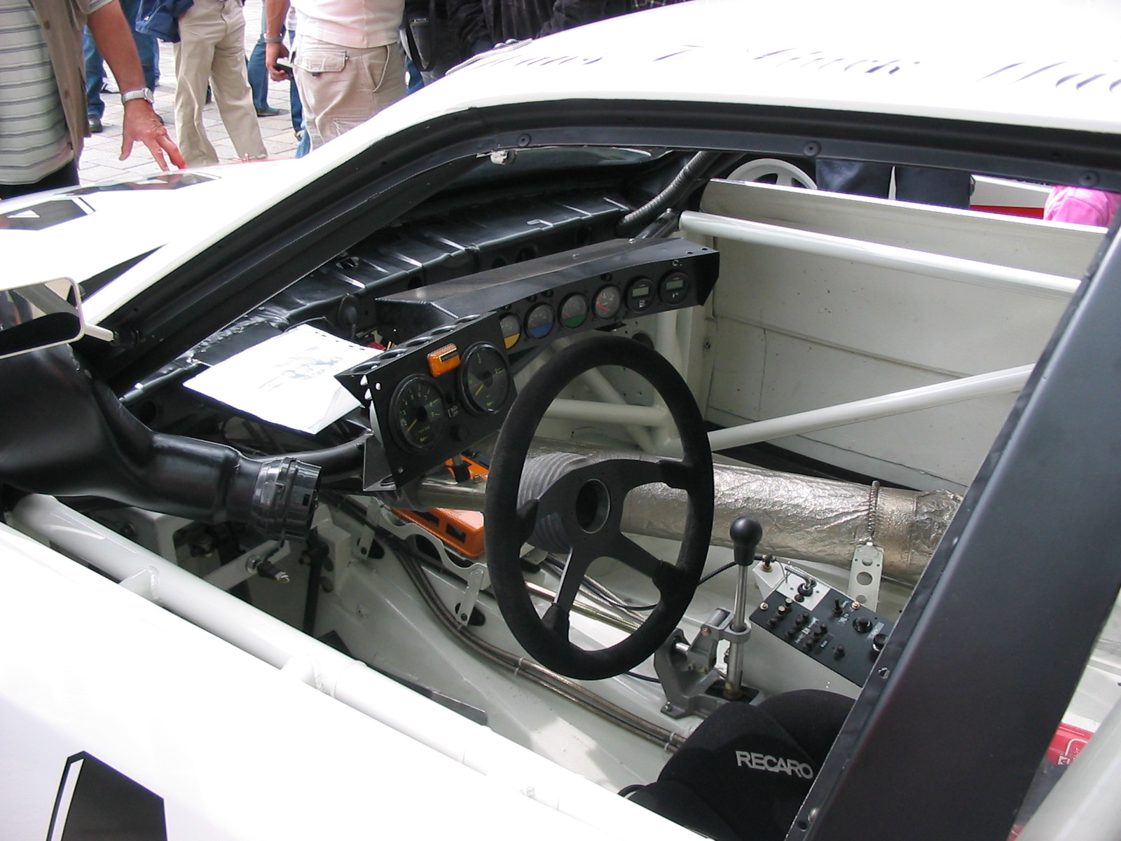 Audi 200 quattro Trans-Am Cockpit